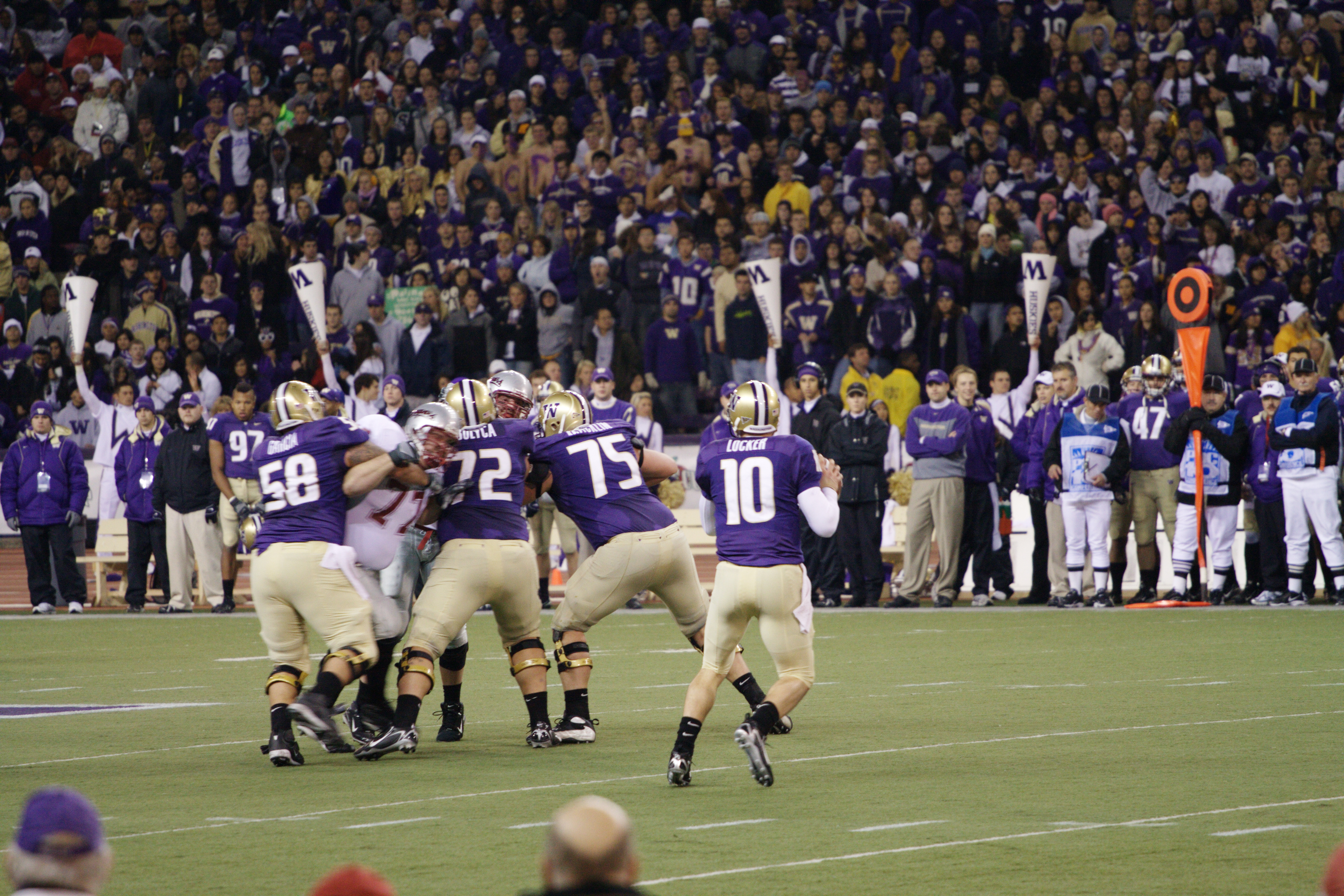 Jake Locker looking for the open shot at the Washington 40 yard line, Husky Stadium, November 24th, 2007